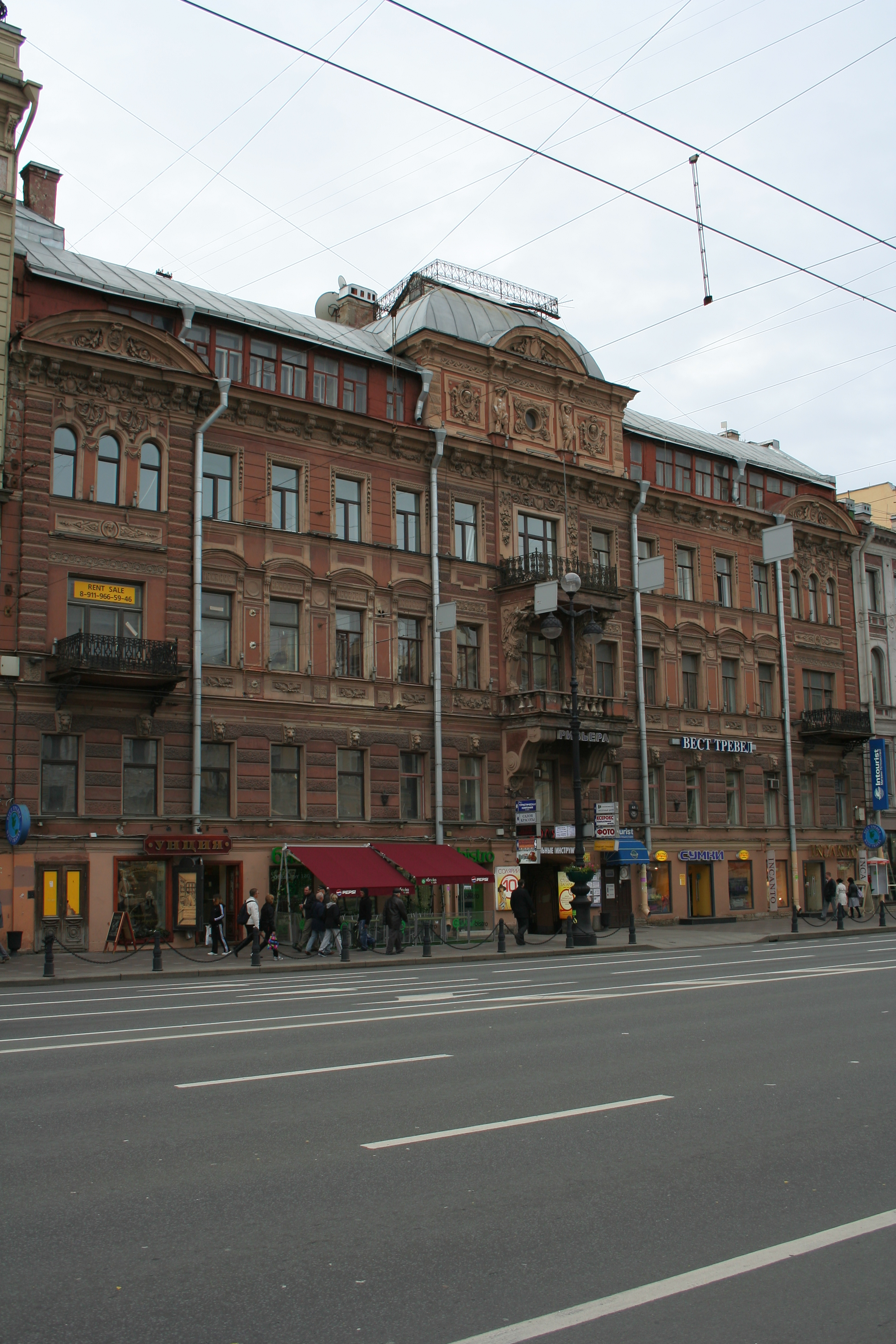 The Nevsky Prospekt in Saint Petersburg. House number 63.